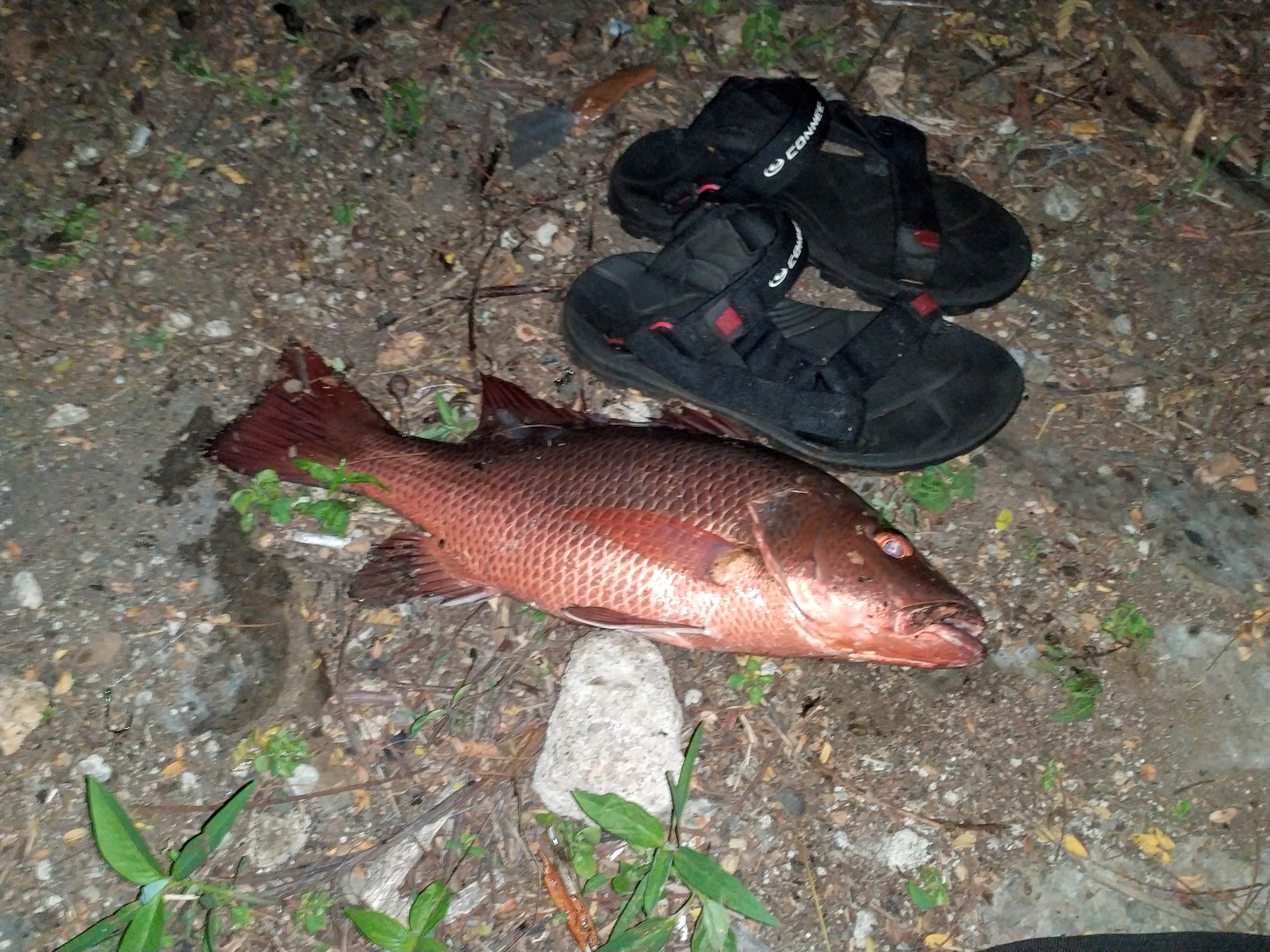 Mangrove Red Snapper caught at night in indonesia